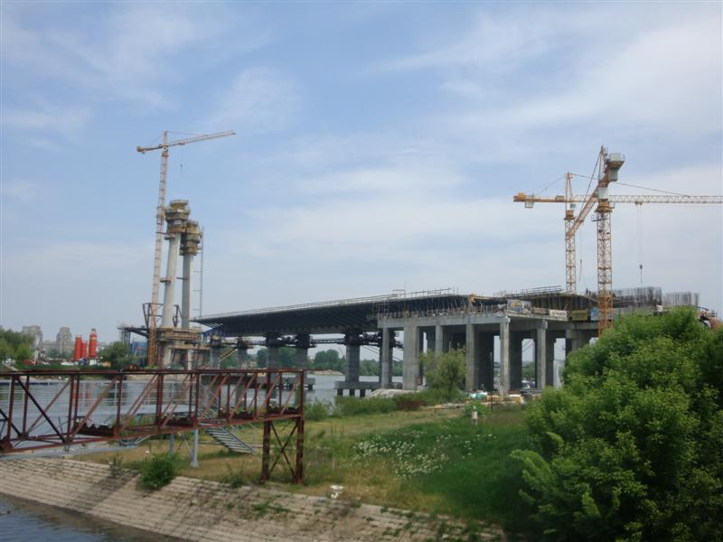 Belgrade's Ada Bridge under construction, May 2010.